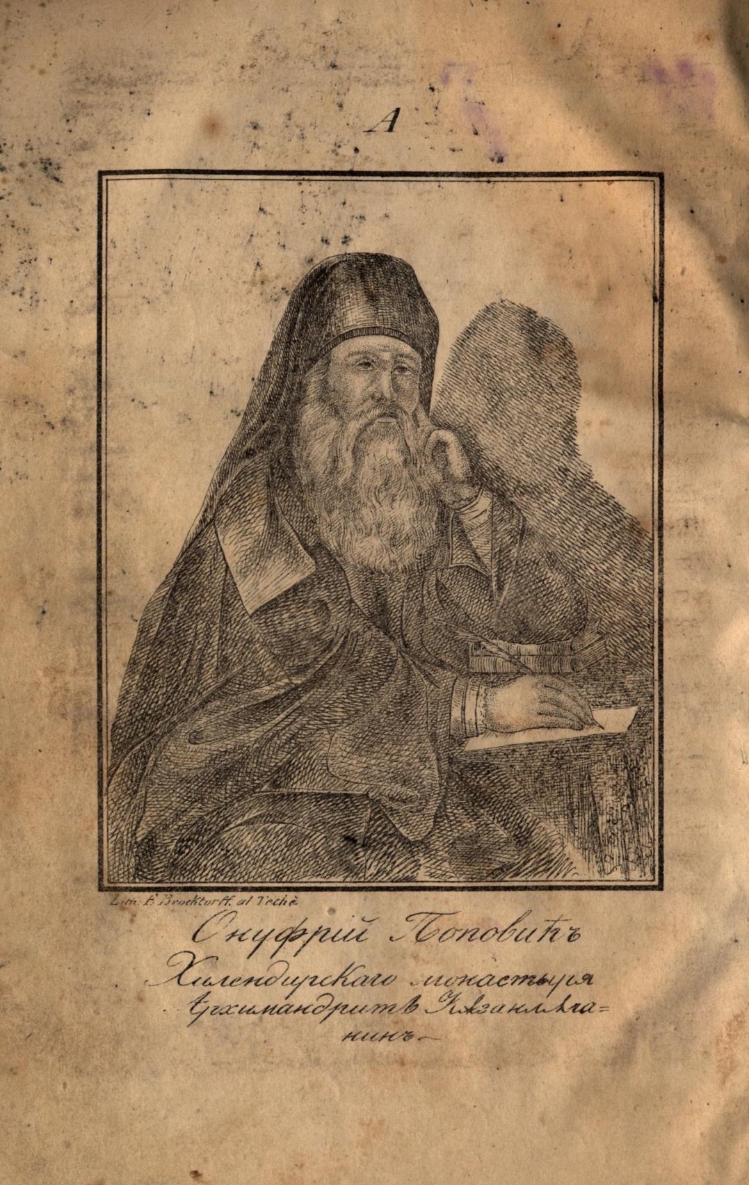 A portrait of Onufry Popovich Hilendarski, published in his translated into Bulgarian language book "Duhovniy zrak", printed in 1850. Under the portrait is written: "Onufry Popovich, Archimandrite of the Hilendar Monastery, a man from Kazanlak". A Litography from Friedrich Brocktorff at Teche.